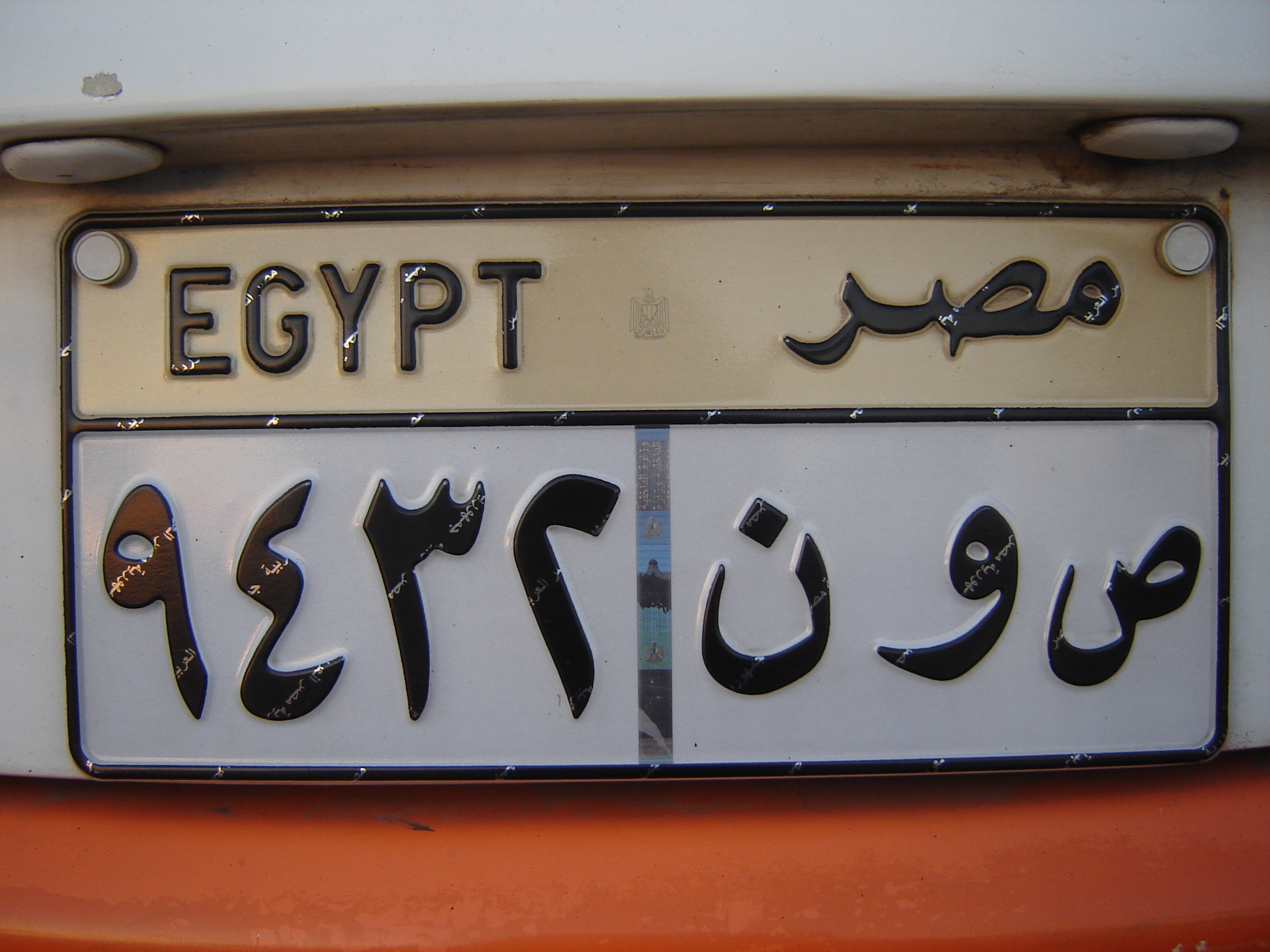 Licence plate from Egypt for tourist (tour) busses (new after-2008 style, Arab-only version), Note: The silver-colored diagional security imprint; is in Arab (جمهوريّة مصرالعربيّة - means Arab Republic of Egypt) only, Foto taken near Aswan (Egypt).